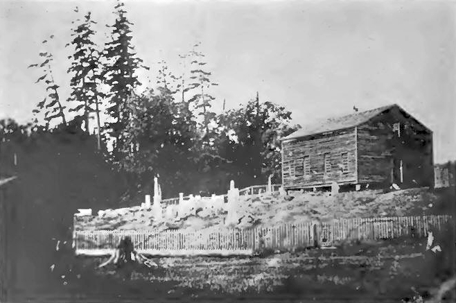 The Meeting House in Scotch Block, Ontario. The meeting house was replaced by a stone church, Boston Presbyterian Church, during the late 1860s. The church is now located in the community of Boston, Halton Hills, Ontario.